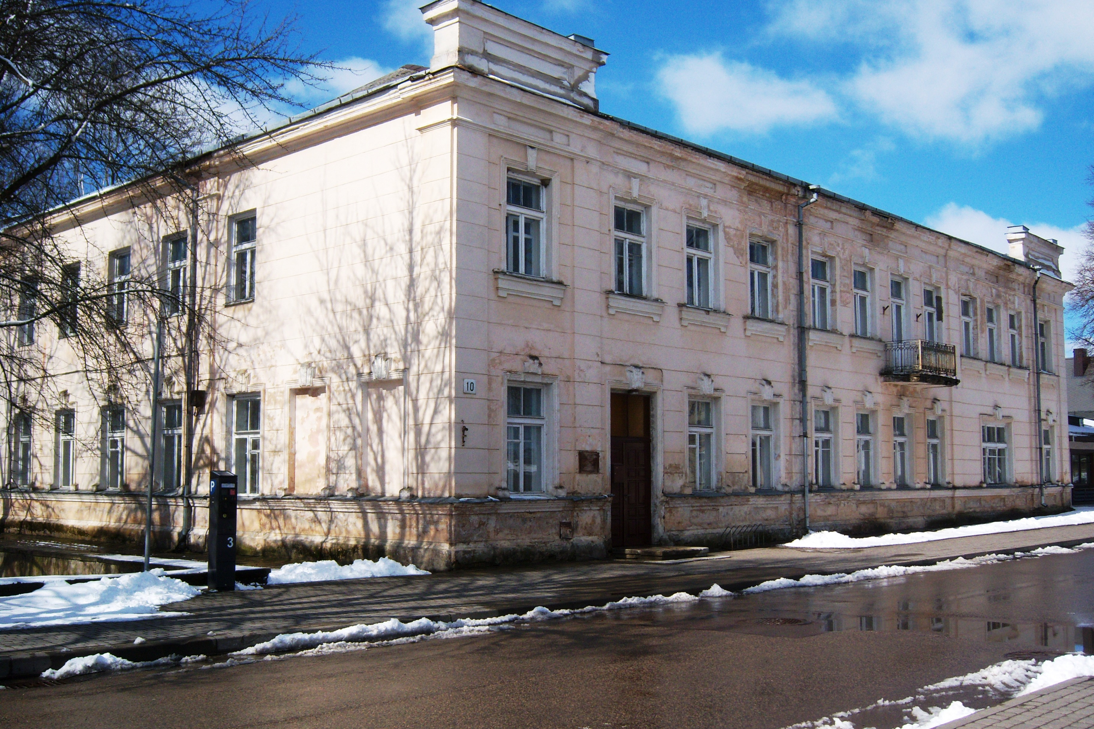 Karaimų Street 10, Trakai, Lithuania